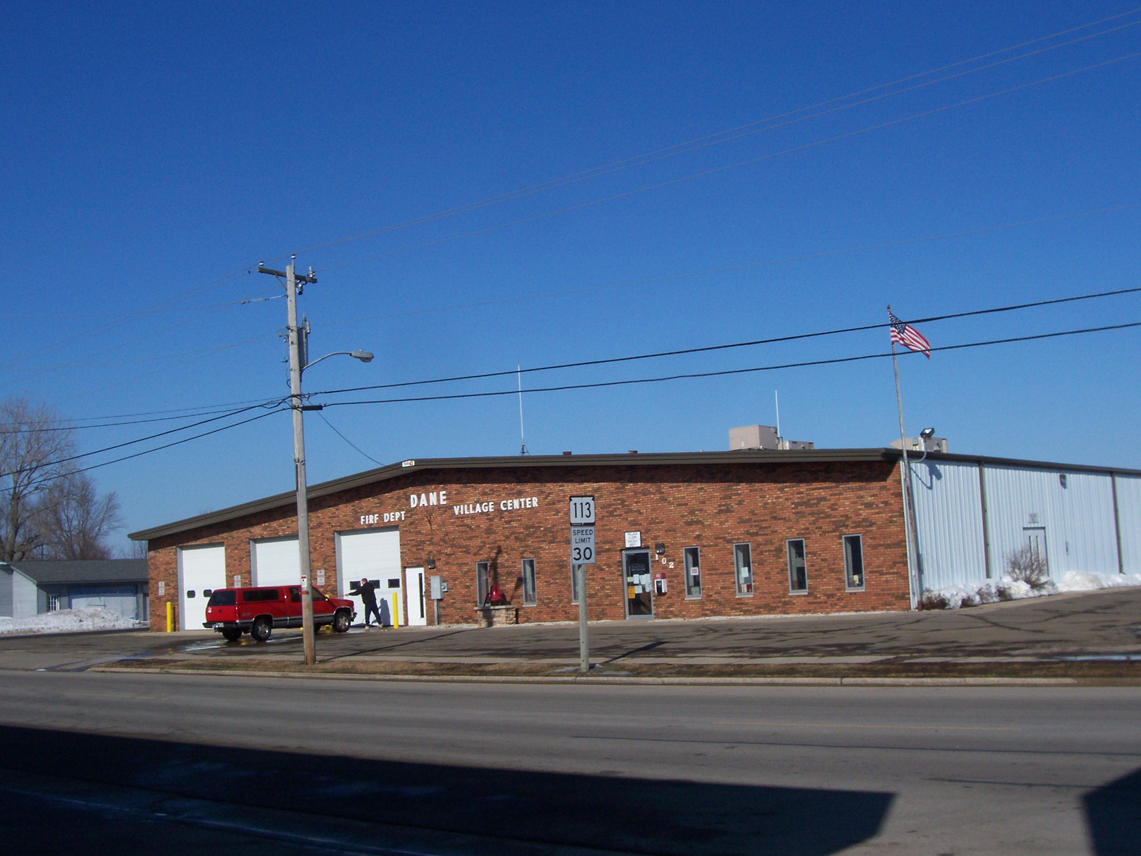 Looking northwest at the village center and fire station for Dane, Wisconsin (the village, not the county) on Wisconsin Highway 113.